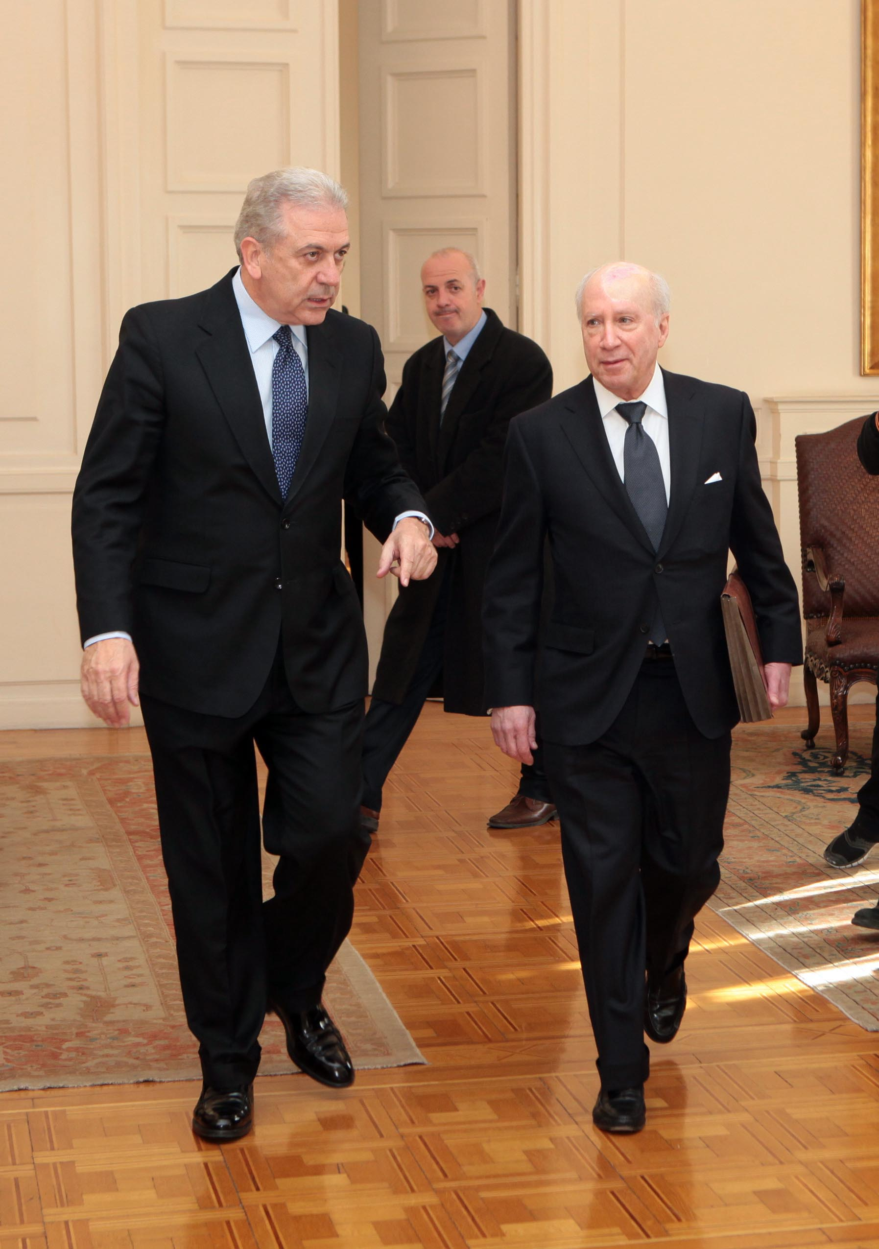 On Wednesday, January 9, 2013, Greece's Foreign Minister Dimitris Avramopoulos met with the Personal Envoy of the Secretary-General of the United Nations, Matthew Nimetz, at the Foreign Ministry.